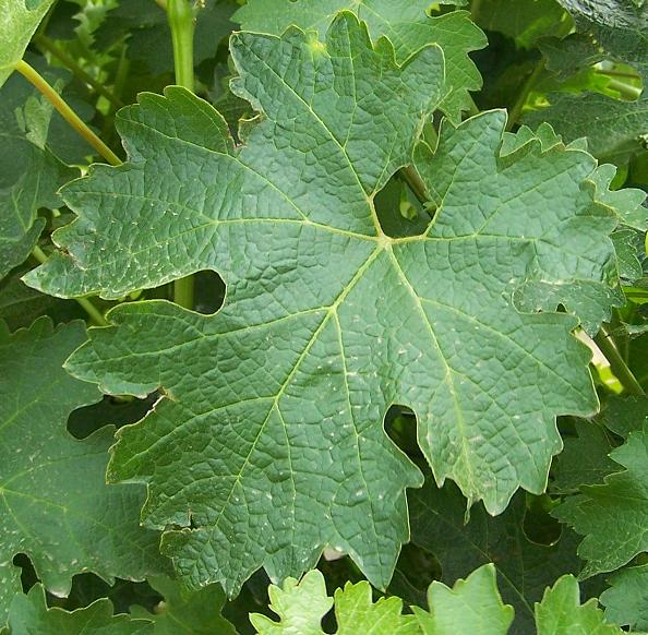 Cabernet Sauvignon leaf from Hedges Vineyard in Red Mountain AVA. Photo taken Sunday, June 20th, 2007 with Kodak z650